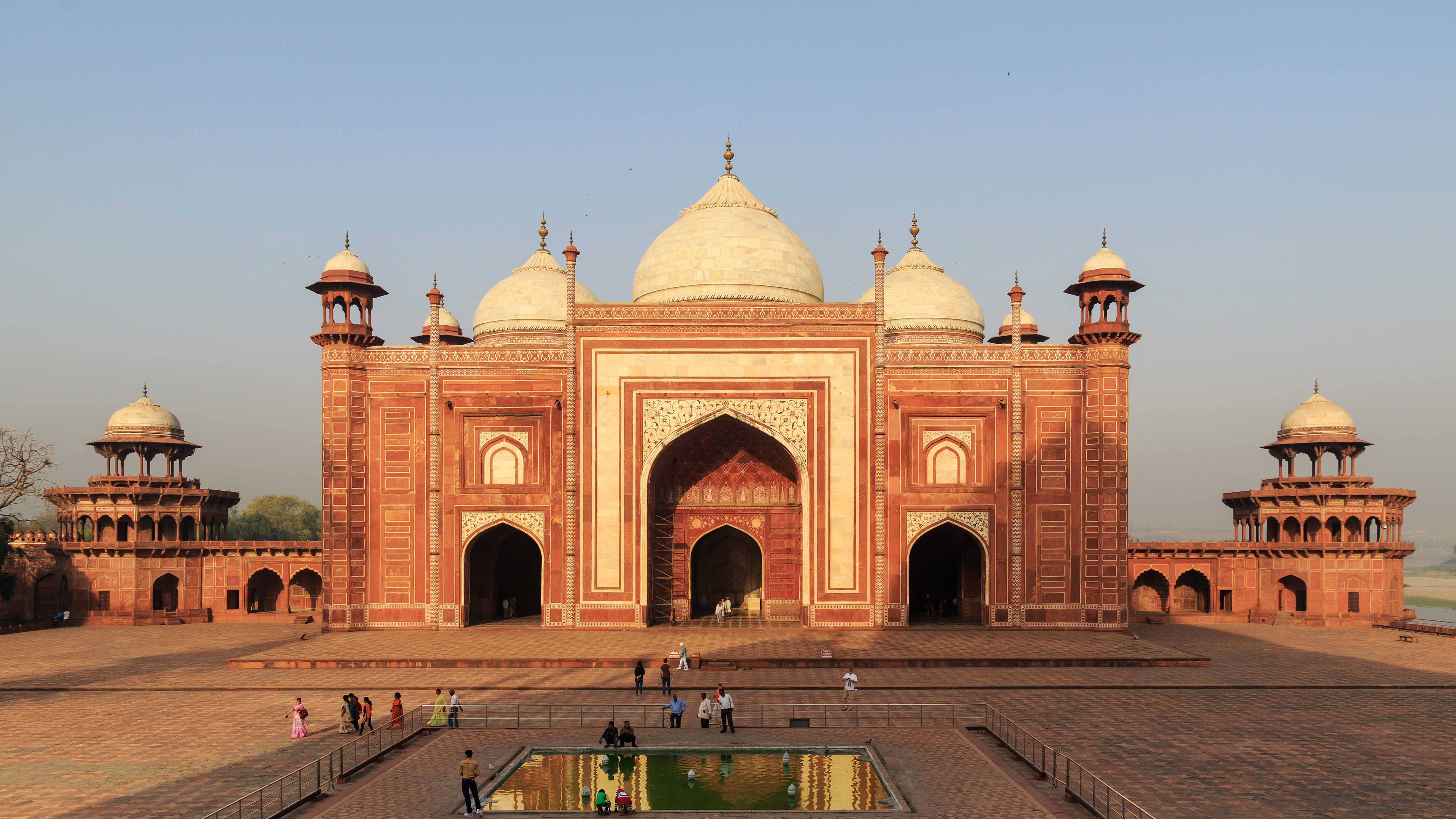 Early morning at the Taj Mahal complex in Agra, India.